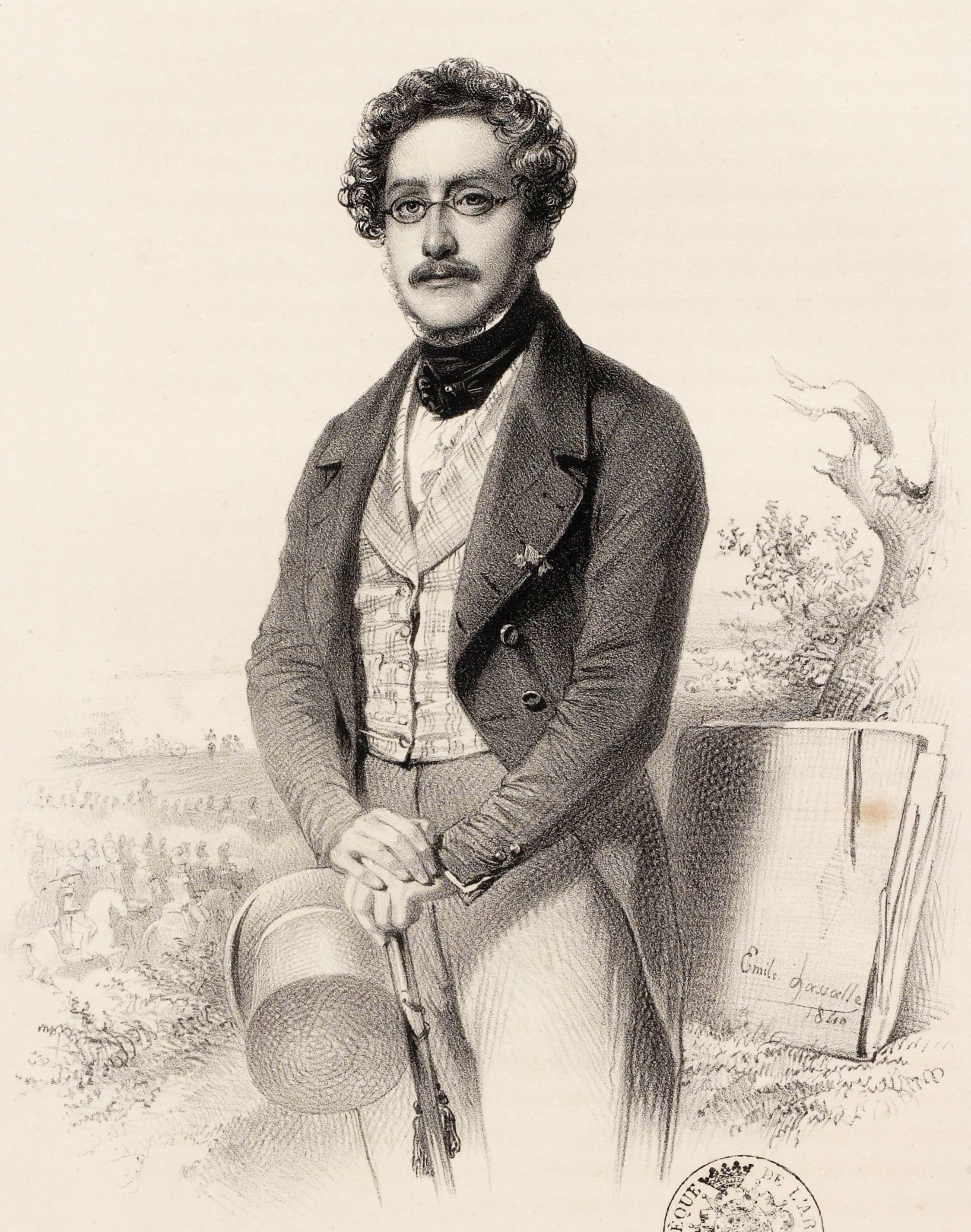 Engraving of Hippolyte Bellangé (1800-1866), French draughstman, engraver, and painter